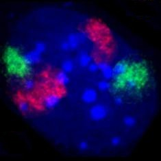 Mouse fibroblast cell nucleus with territories of chromosomes 2 (red) and 9 (green) painted by fluorescence in situ hybridisation. DNA counterstain shown in blue.